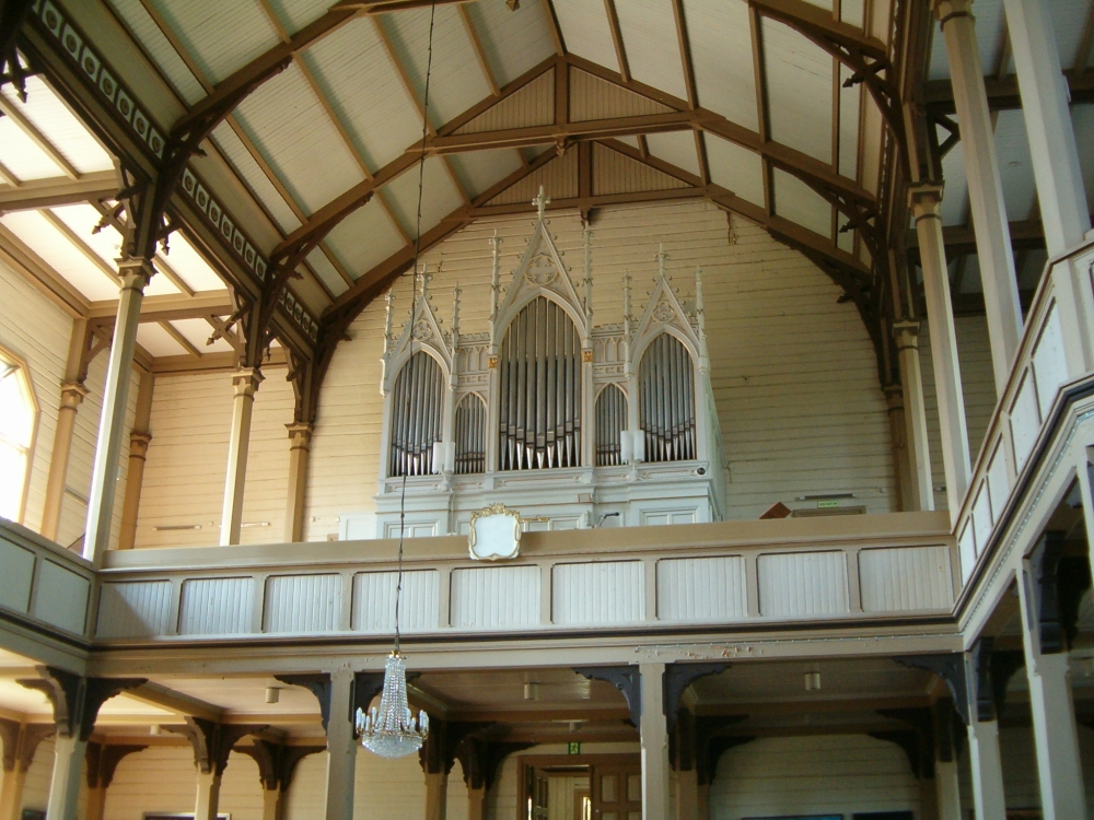 The wooden Church of Heinävesi, Finland. Designed by Josef Stenbäck and built in 1890–1891. The organ.